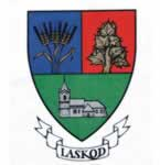 Coat of arms of Laskod, Hungary